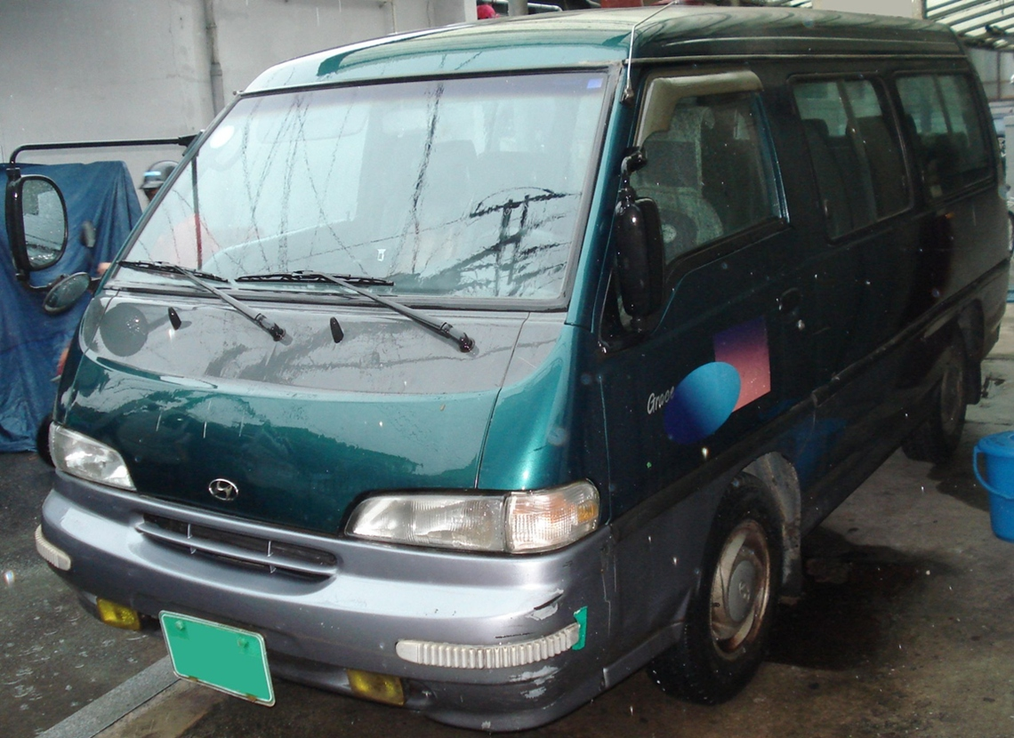 Hyundai Grace